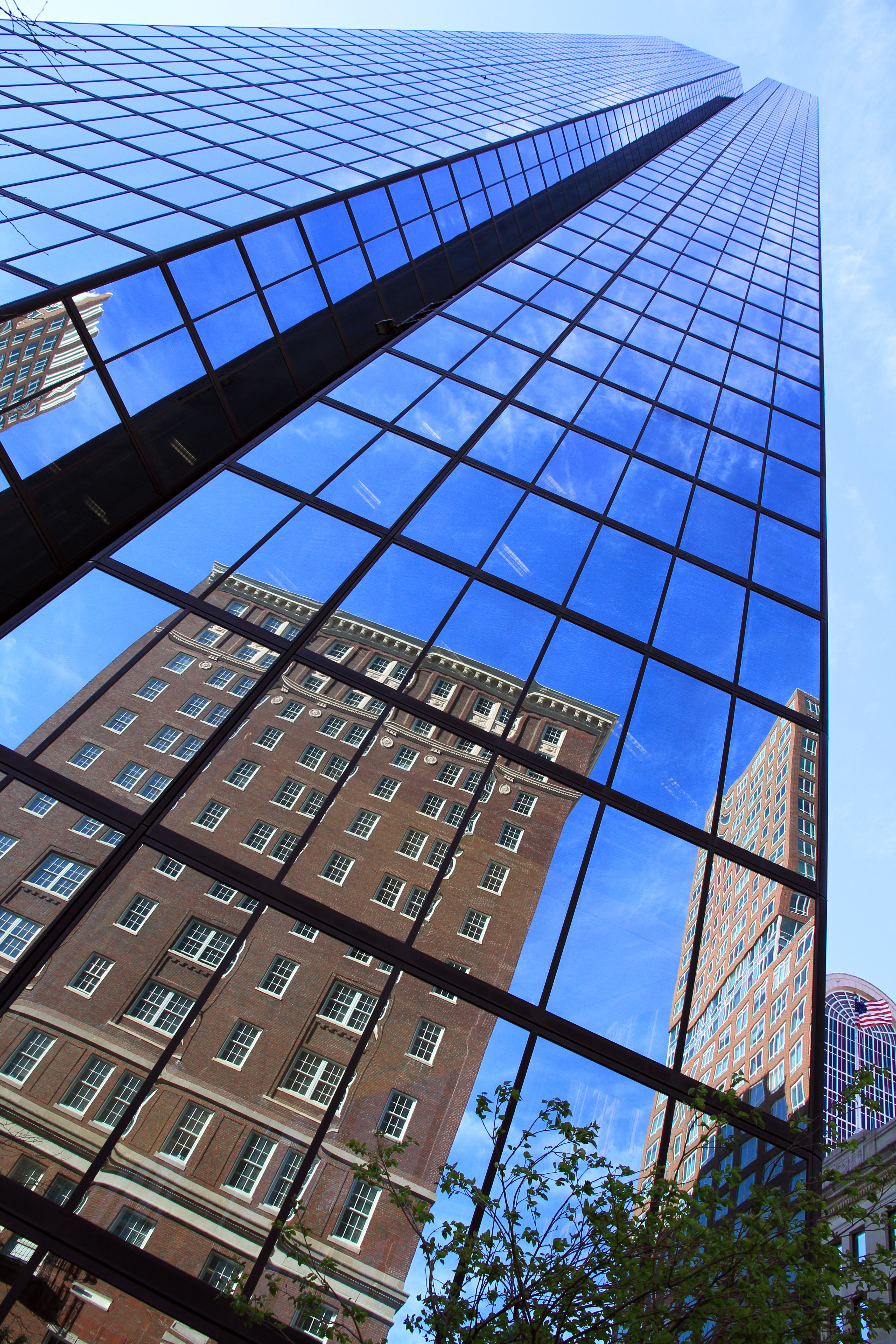 John Hancock Tower, 2013